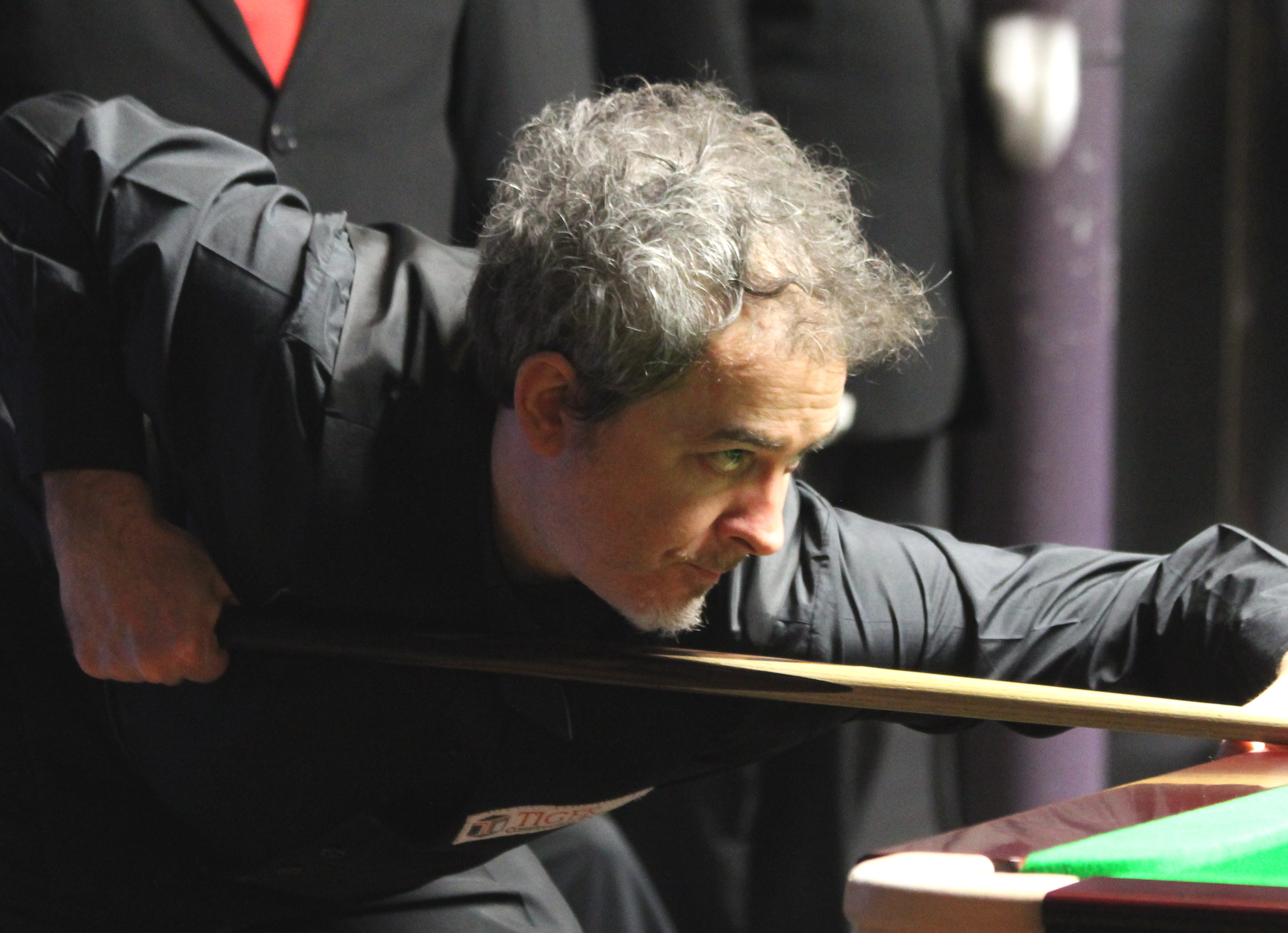 Anthony Hamilton beim Paul Hunter Classic 2016